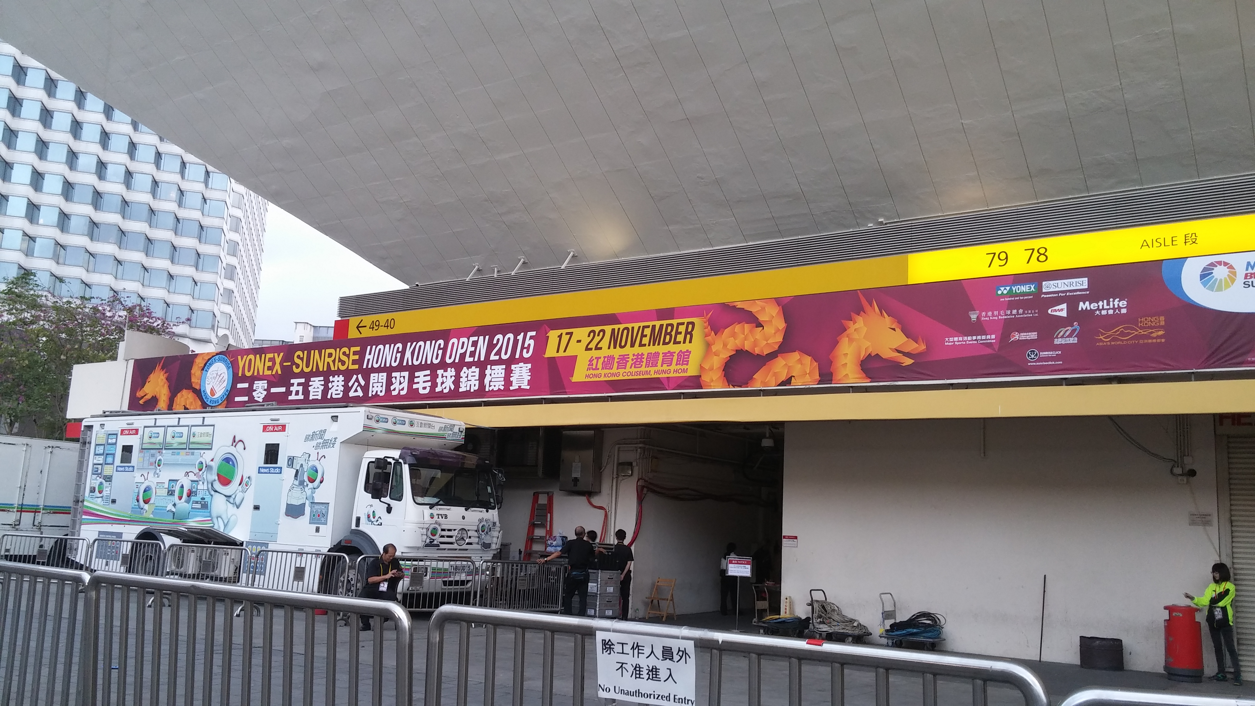 The Venue of Hong Kong Open Badminton Championships 2015 - Hong Kong Coliseum